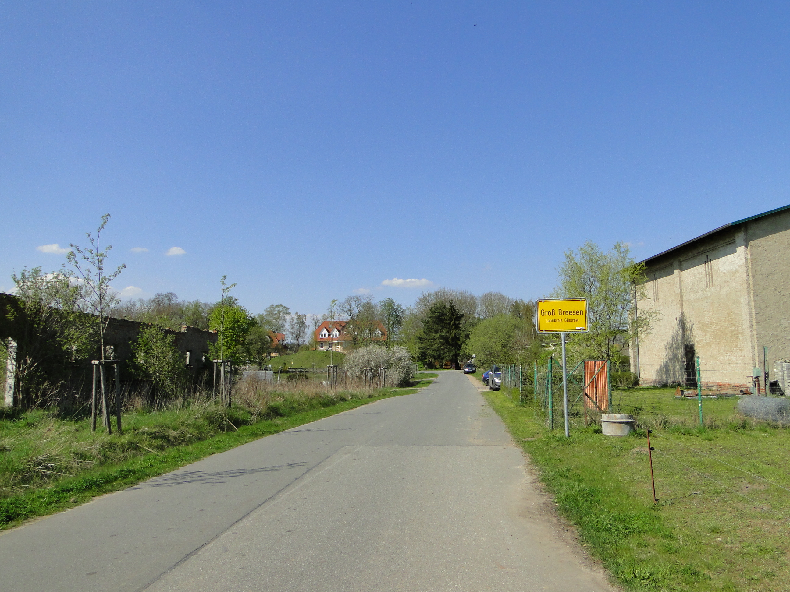 Village view in Groß Breesen, district Güstrow, Mecklenburg-Vorpommern, Germany